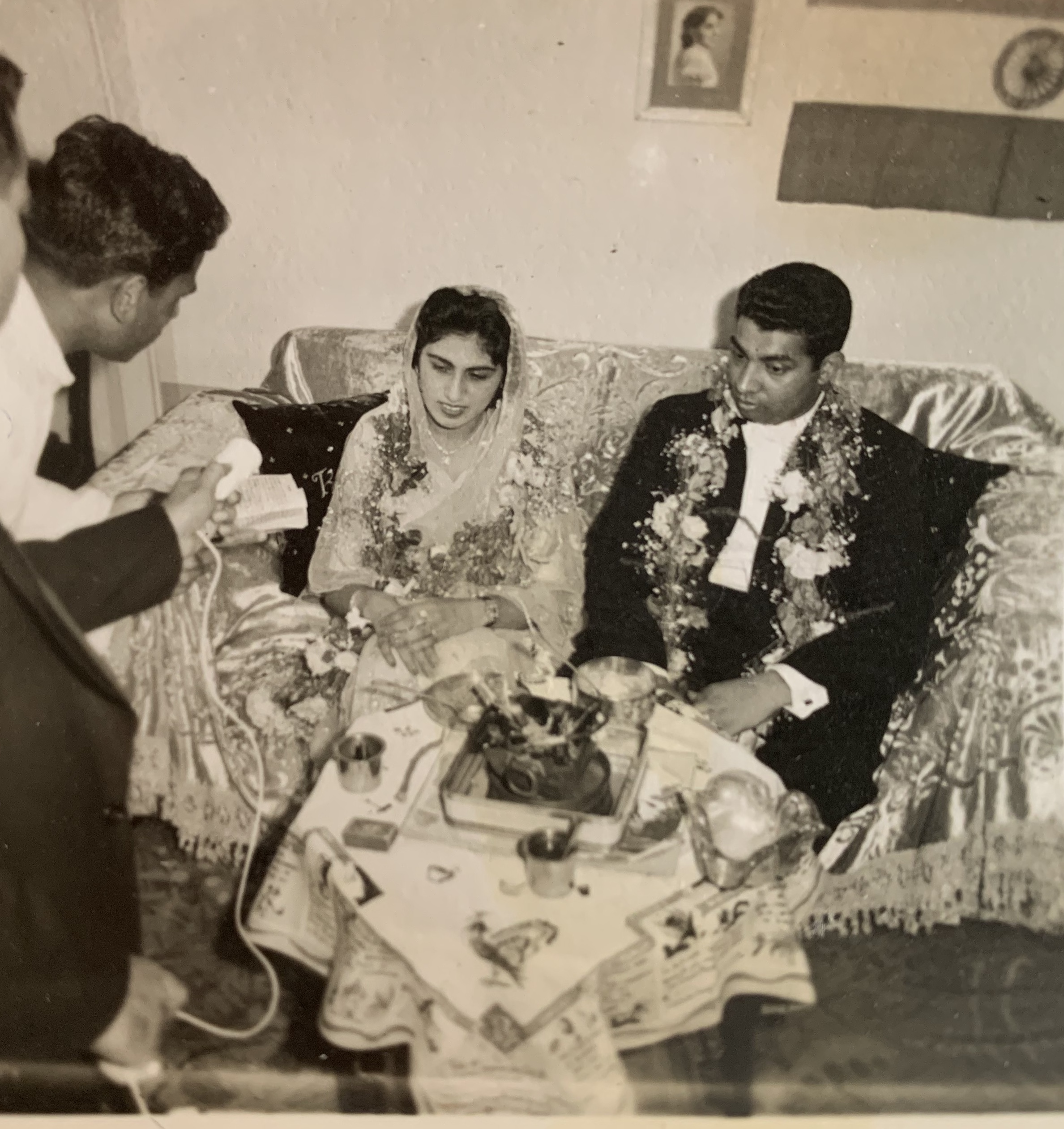 "Indian Wedding in Malta (my mother’s eldest brother, Arjan to my father’s youngest sister, Gladys). May 1958." Courtesy of Raj Vaswani, Gopaldas, Malta